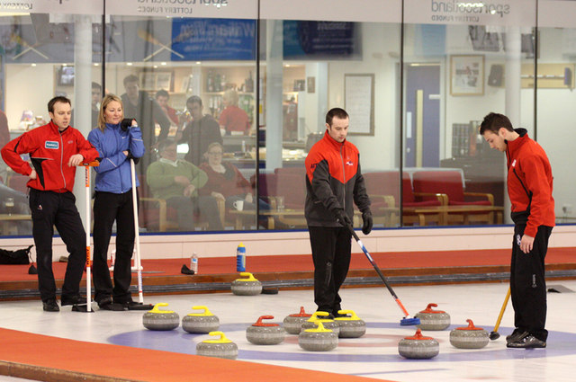 Play in Curl Aberdeen There are lots of stones in play in this end of a game during the Scottish Mixed Championship, March 2009. Curl Aberdeen has six lanes of curling ice. For the record, the Scottish Mixed Champions 2009 are Tom Brewster (skip), Lynn Cameron, Colin Campbell and Michelle Silvera.